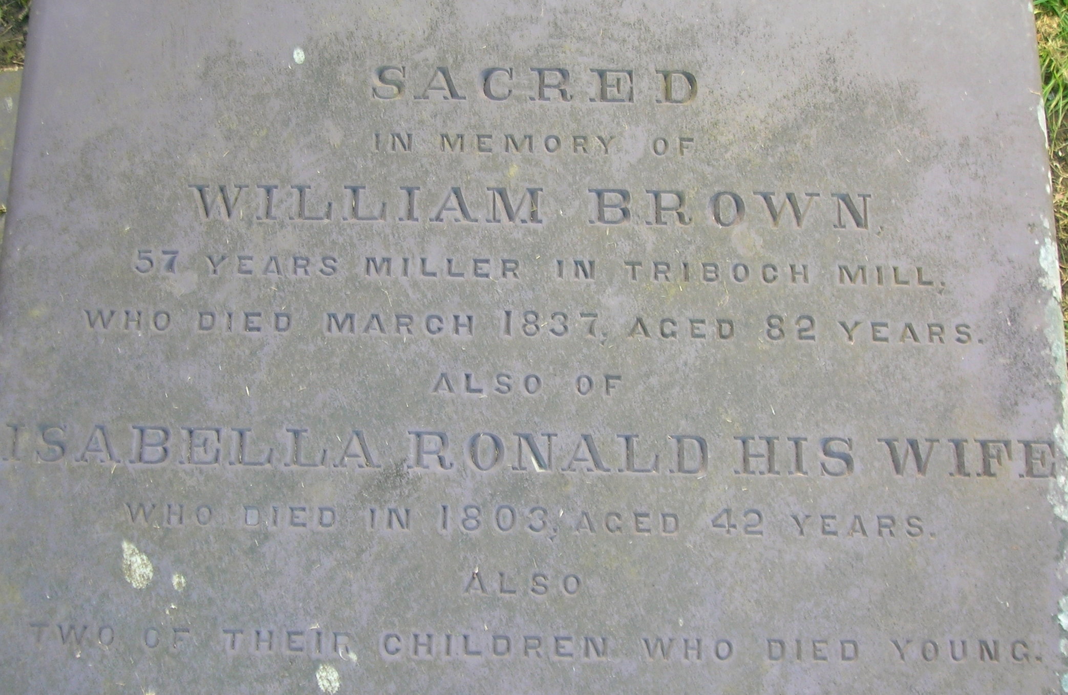 William Brown and family of Trabboch Mill, Old Coylton churchyard, South Ayrshire, Scotland